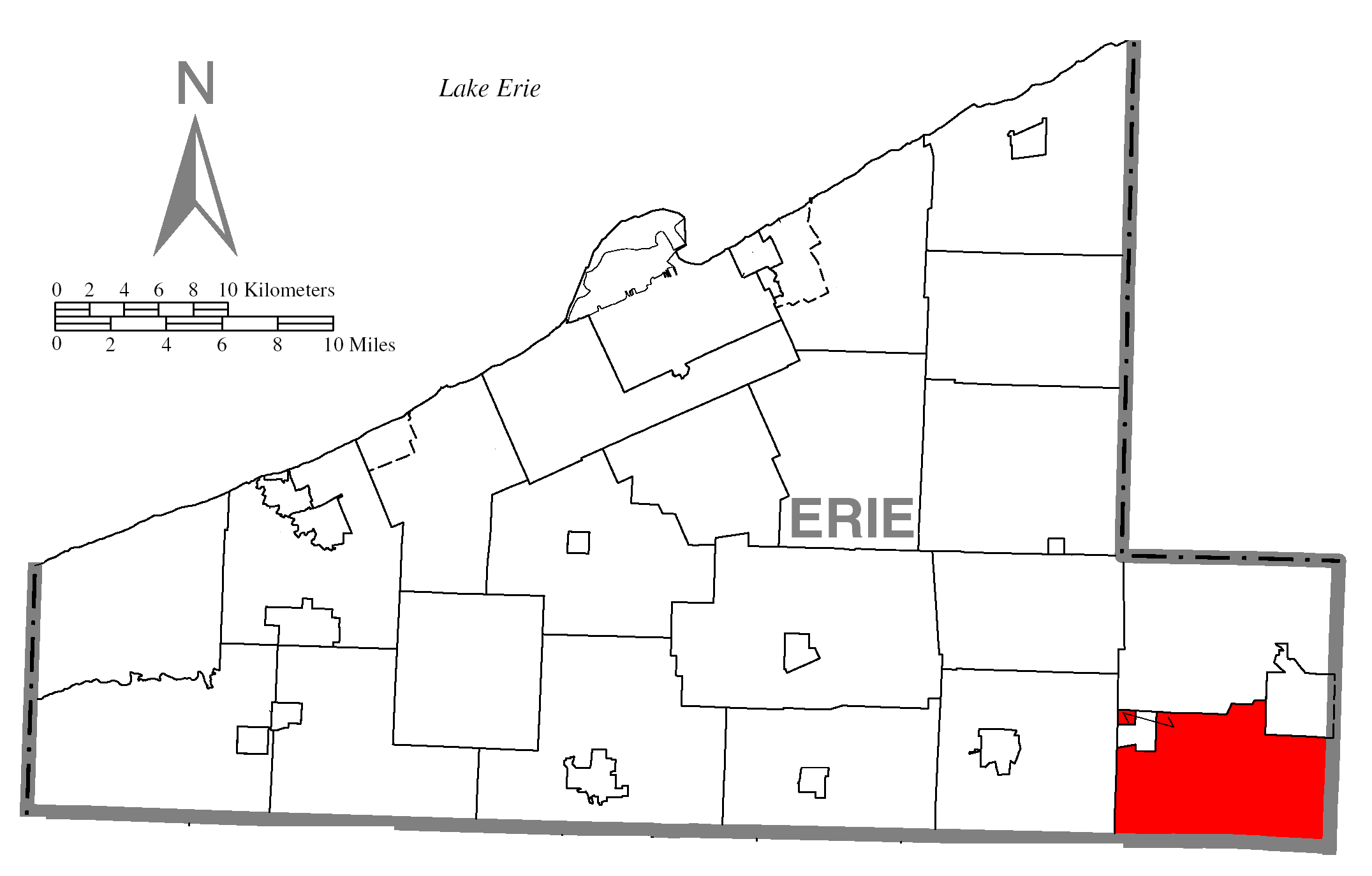 A map of Erie County showing Concord Township, Pennsylvania (alternate) highlighted on the map.